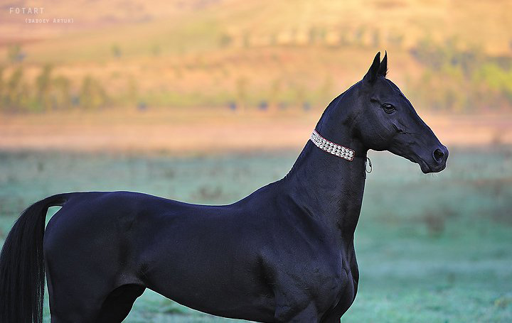 Akhal-teke stallion Garausup